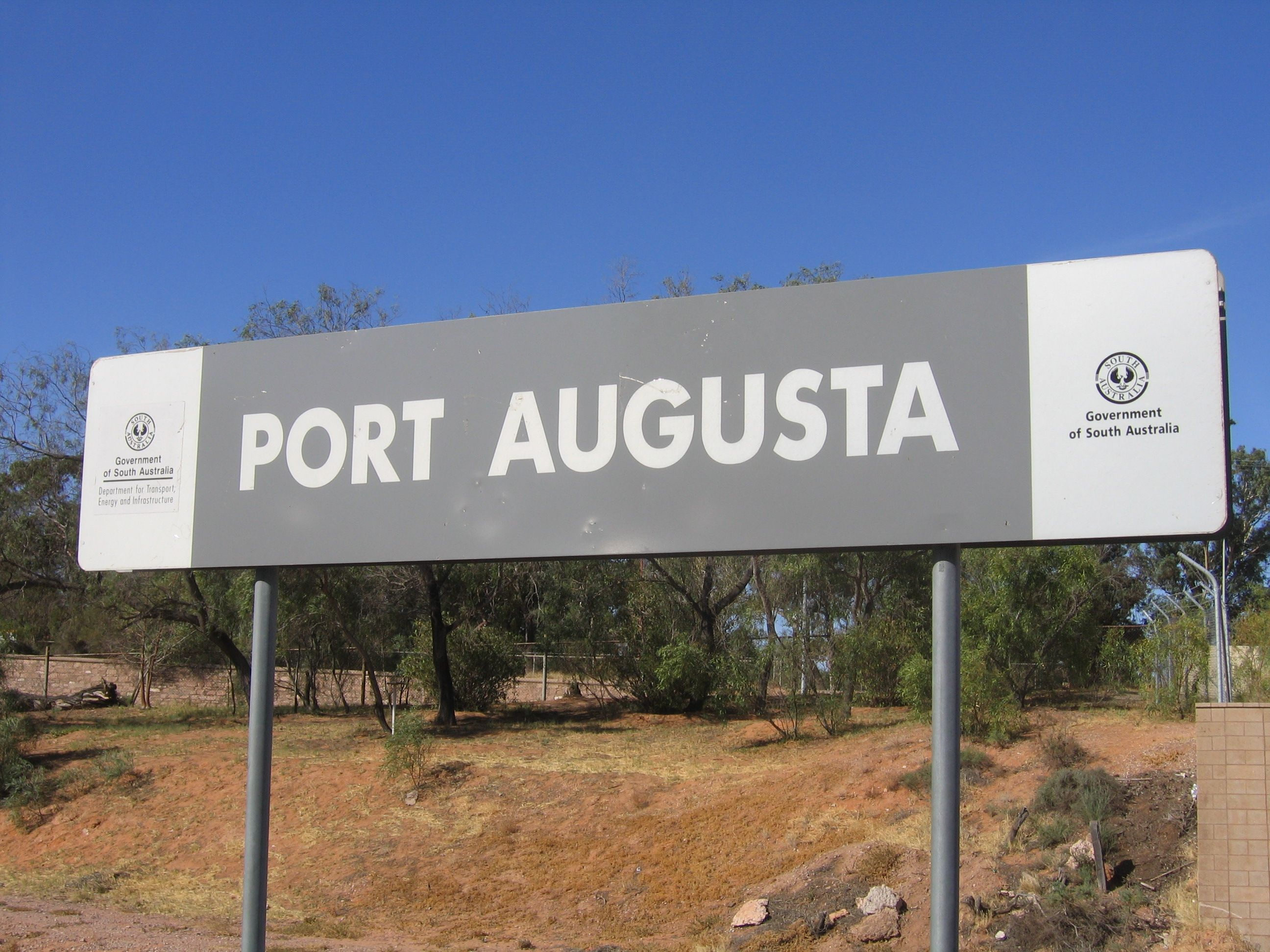 Sign of Port Augusta railway station